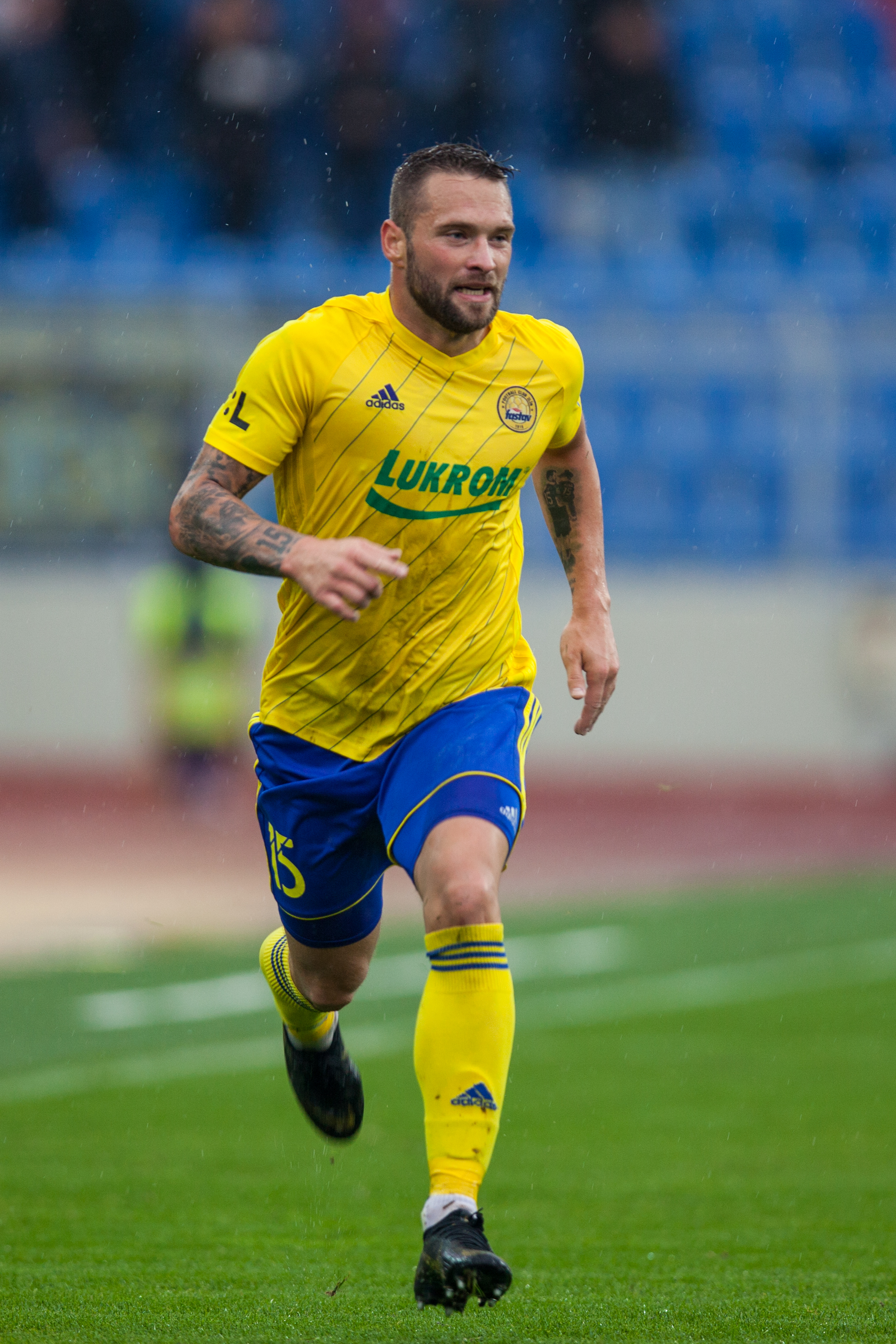 Antonín Fantiš in a Czech First League (Fortuna:Liga) match between FC Baník Ostrava and FC Fastav Zlín (4:0), 5 October 2019, Městský stadion Ostrava, Ostrava-Vítkovice, Ostrava-City District, Moravian-Silesian Region, Czechia Personality rights warningAlthough this work is freely licensed or in the public domain, the person(s) shown may have rights that legally restrict certain re-uses unless those depicted consent to such uses. In these cases, a model release or other evidence of consent could protect you from infringement claims.